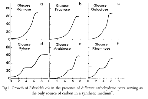 This is a photocopy of a figure from an old (1940s) doctoral thesis reproduced in a later (1960s) article and then used in many places including the current source.